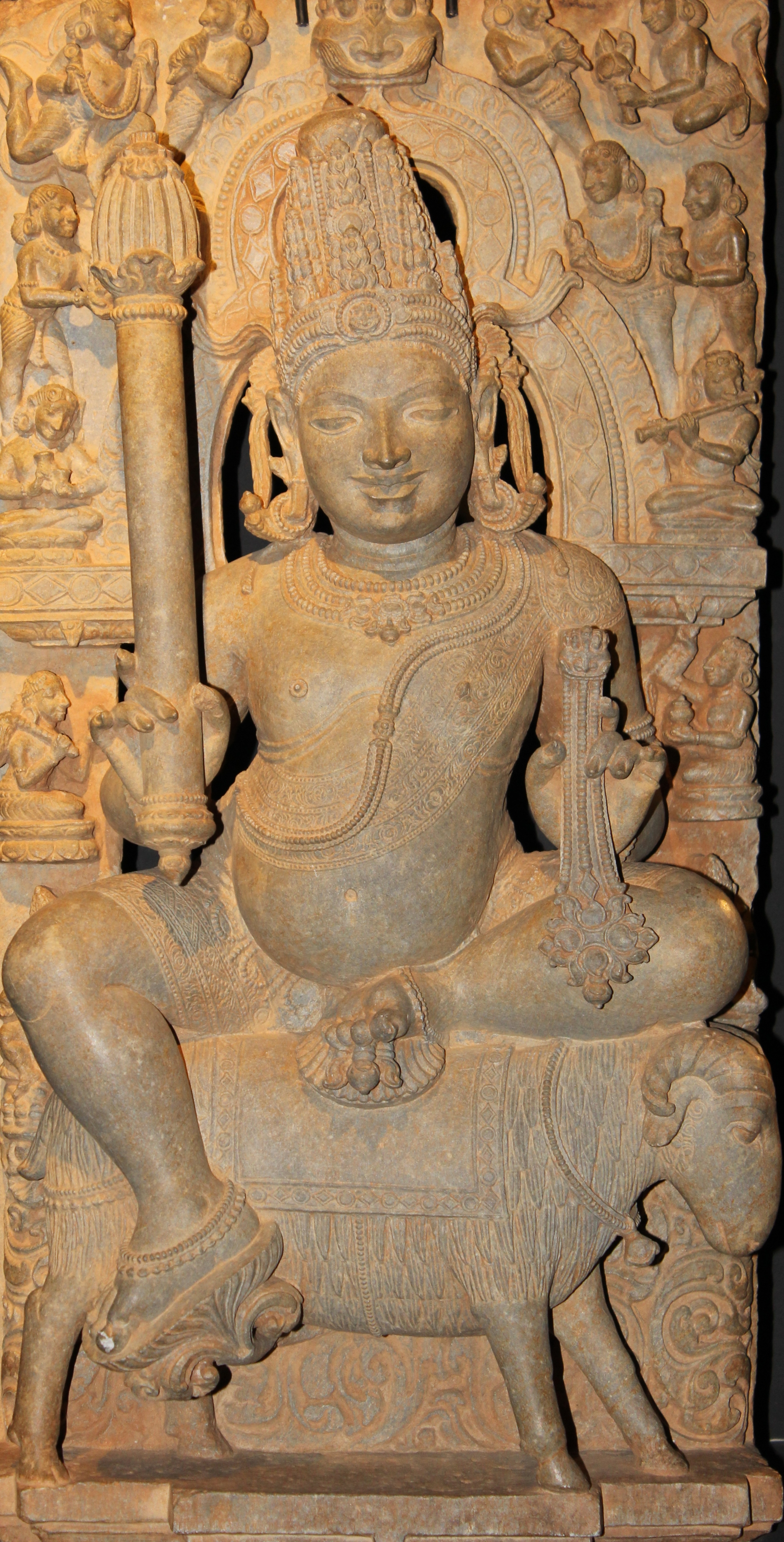 The Gods of the 8 directions North East - Ishana East - Indra South East - Agni South - Yama South West - Nairrti West - Varuna North West - Vayu North - Kubera